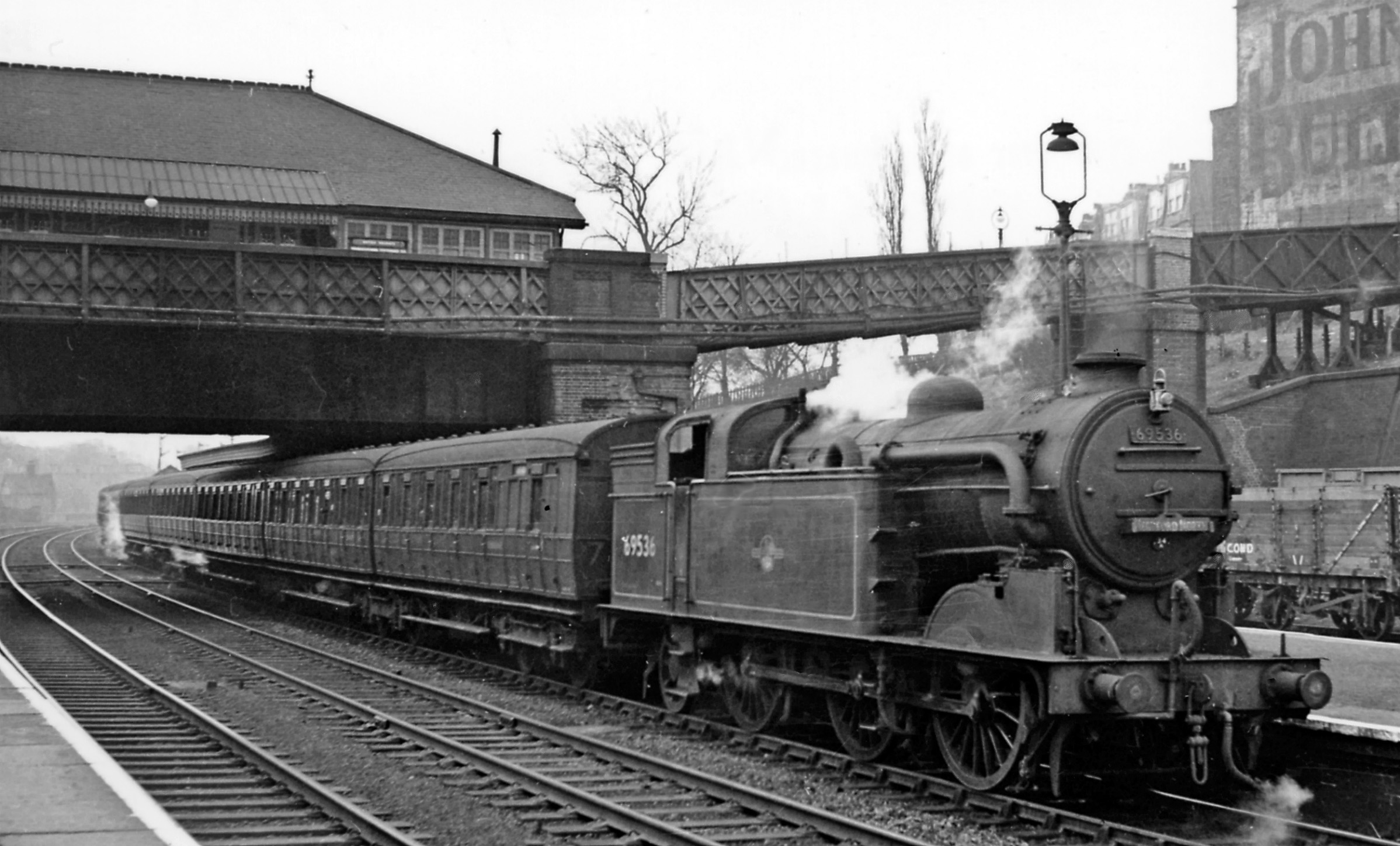 Typical Down local train at Harringay West. View southward, towards Finsbury Park and King's Cross. The train, probably for all stations to Hatfield, is typically made up of two Gresley 'quad-arts' (four coach bodies sharing bogies - articulated) headed by a Gresley N2/2 0-6-2T (No. 69536). On the far side are the Goods lines leading into Ferme Park Down Yard; the footbridge above, led from the Station entrance to a favourite path for train-watching.